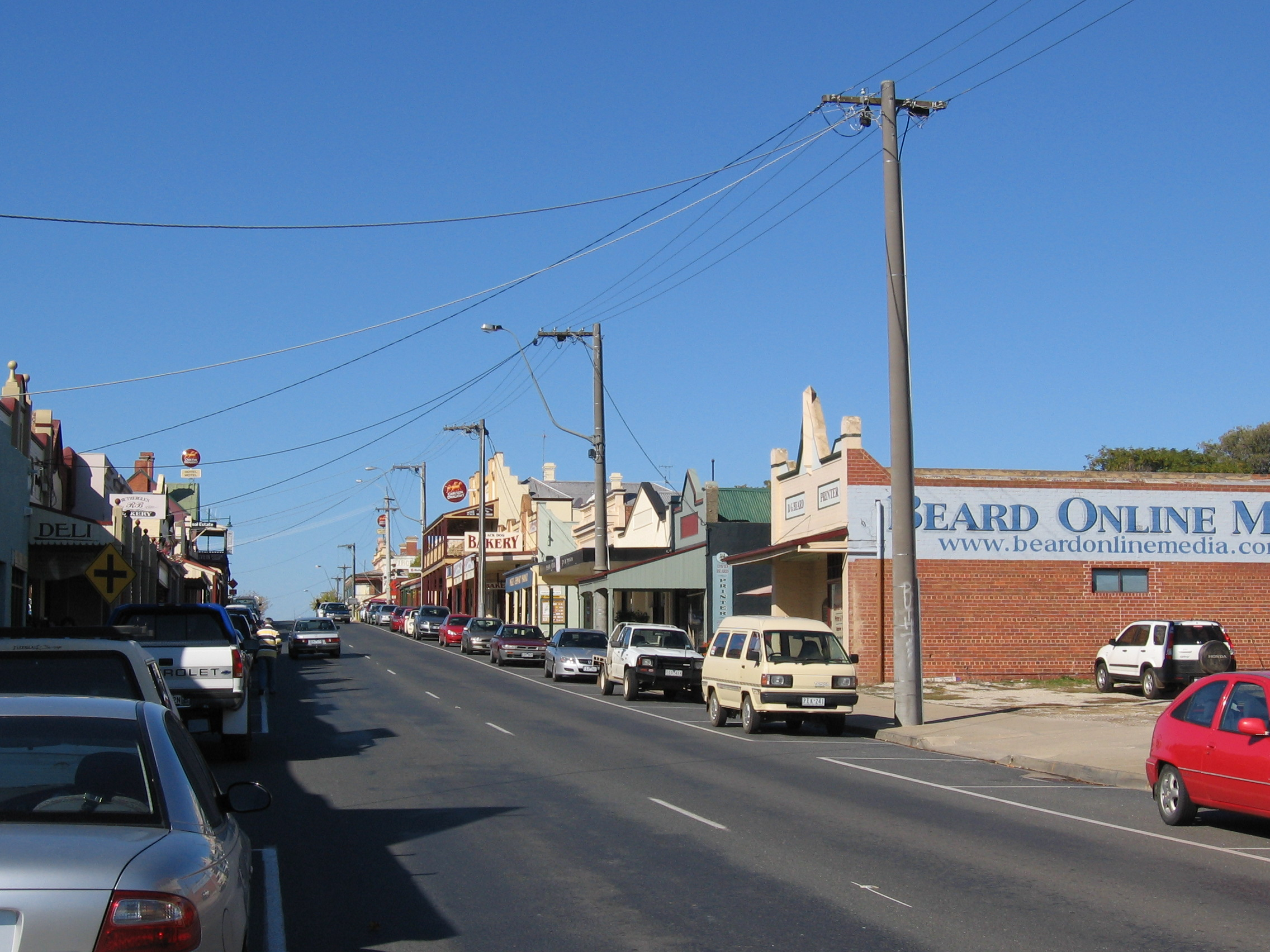 The main street (Murray Valley highway) of Rutherglen, Victoria